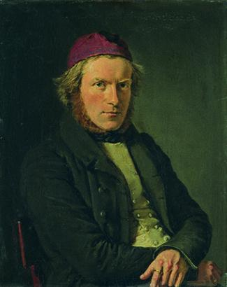 Portrait of the sculptor Herman Wilhelm Bissen